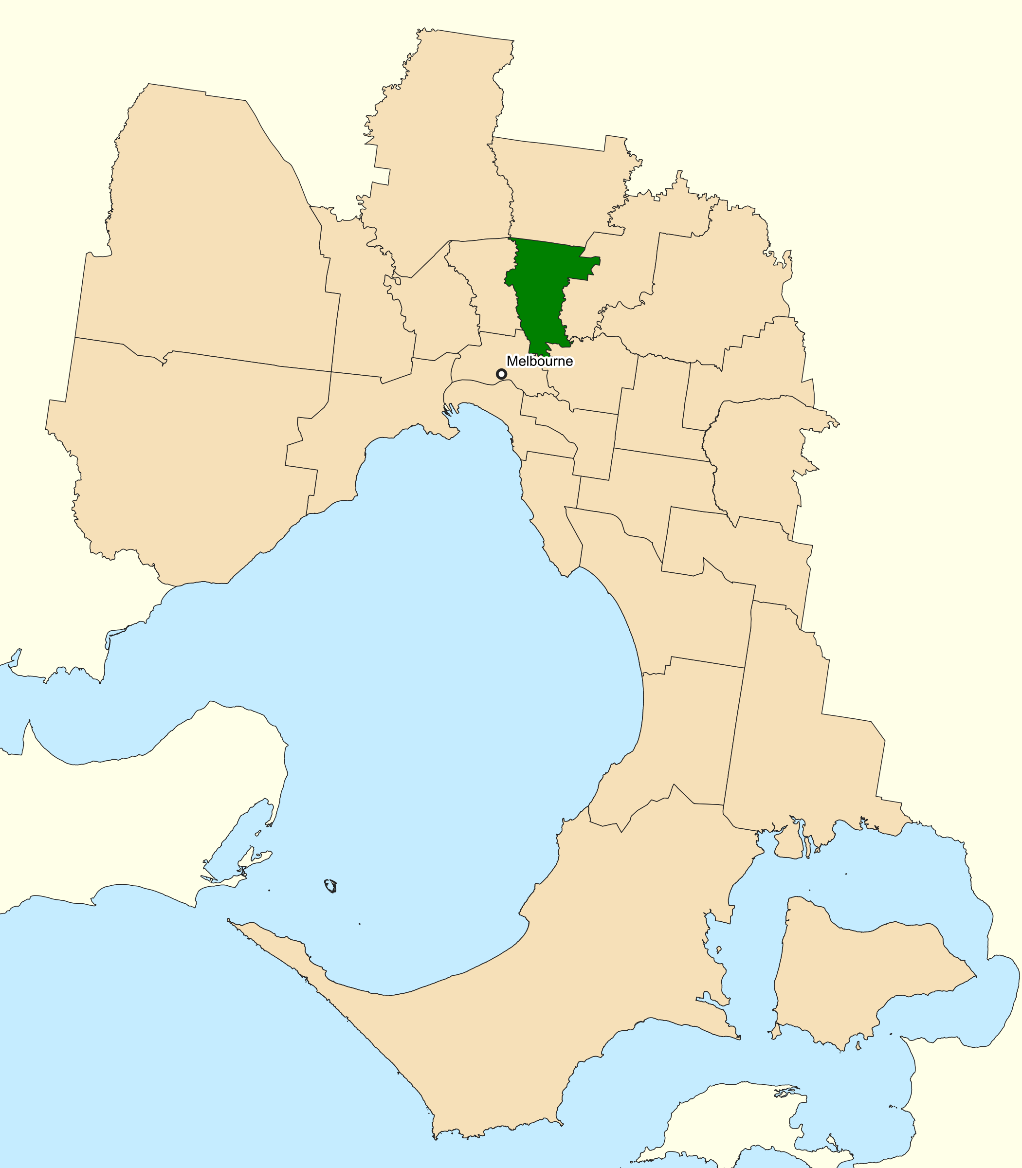 Location of the Australian federal electoral division of Cooper (dark green) in Greater Melbourne, Victoria as of the 2019 Australian federal election. Incorporates or developed using Administrative Boundaries ©PSMA Australia Limited licensed by the Commonwealth of Australia under Creative Commons Attribution 4.0 International licence (CC BY 4.0).